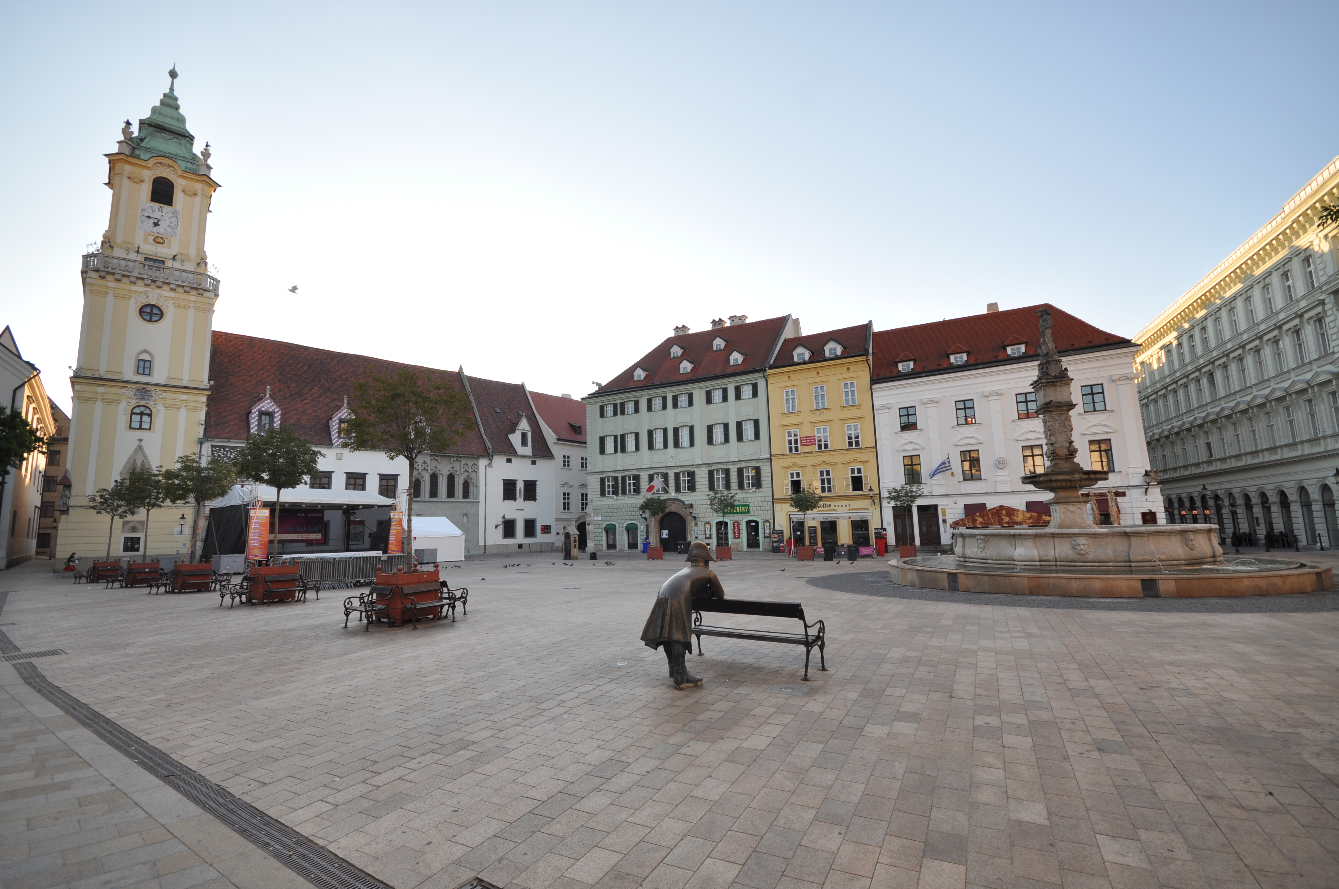 Hlavné námestie - The napoleonic soldier, Old Town Hall and Roland Fountain: Hlavné námestie (literally "Main Square") is one of the best known squares in Bratislava, Slovakia. It is located in the Old Town and it is often considered to be the center of the city. Some of the main landmarks found in the square are the Old Town Hall and Roland Fountain.